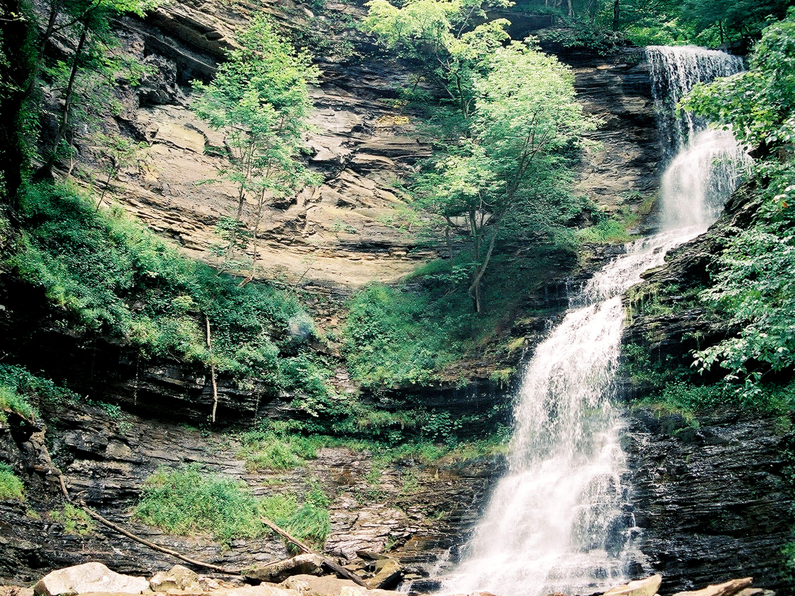 Cathedral Falls, just outside of Gauley Bridge in Fayette County, WV.Photo taken with a Panasonic Lumix DMC-FZ20.